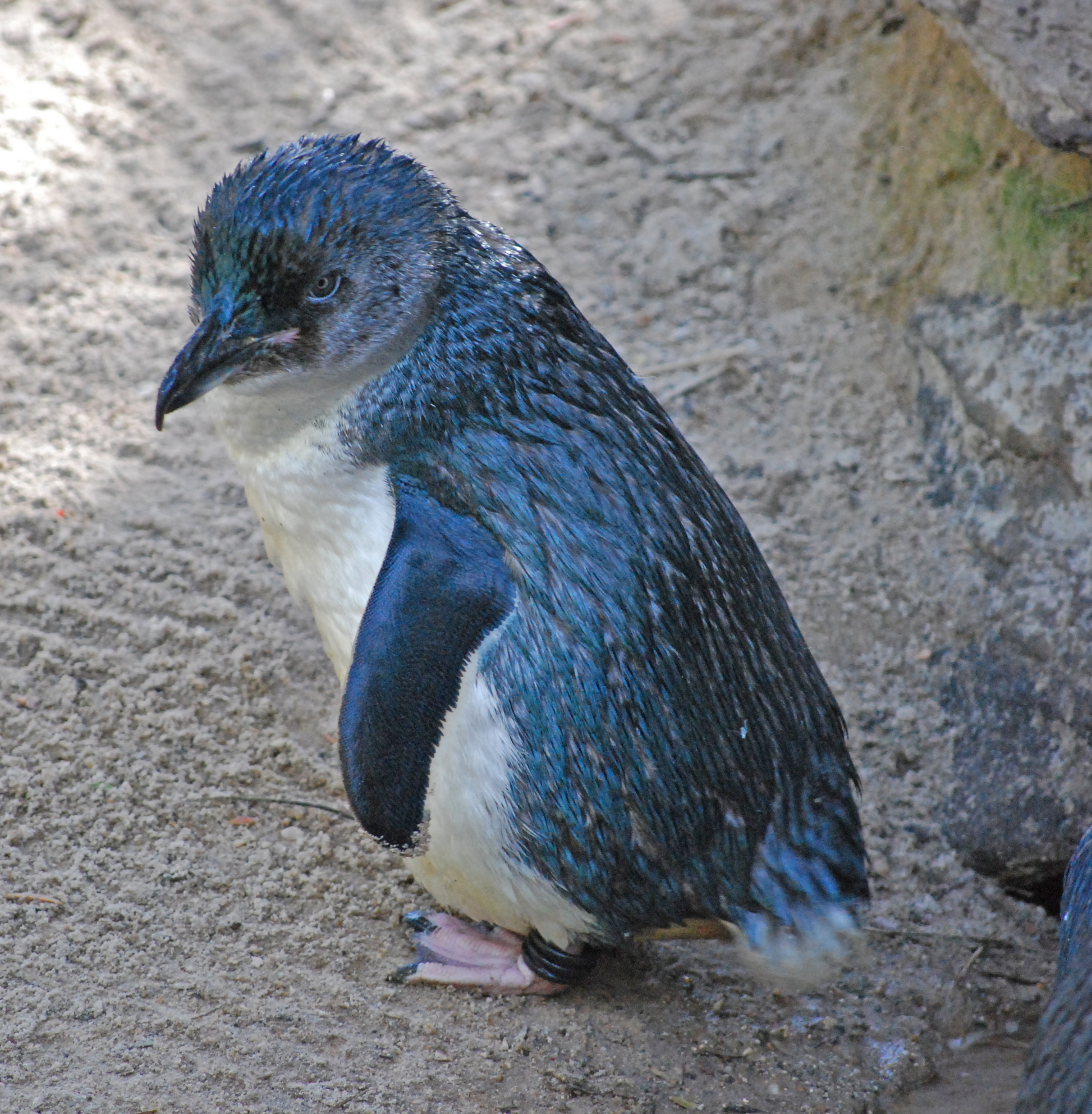 Little Blue Penguin, Blue Penguin, or Fairy Penguin, (Eudyptula minor) at Adelaide Zoo, Australia.